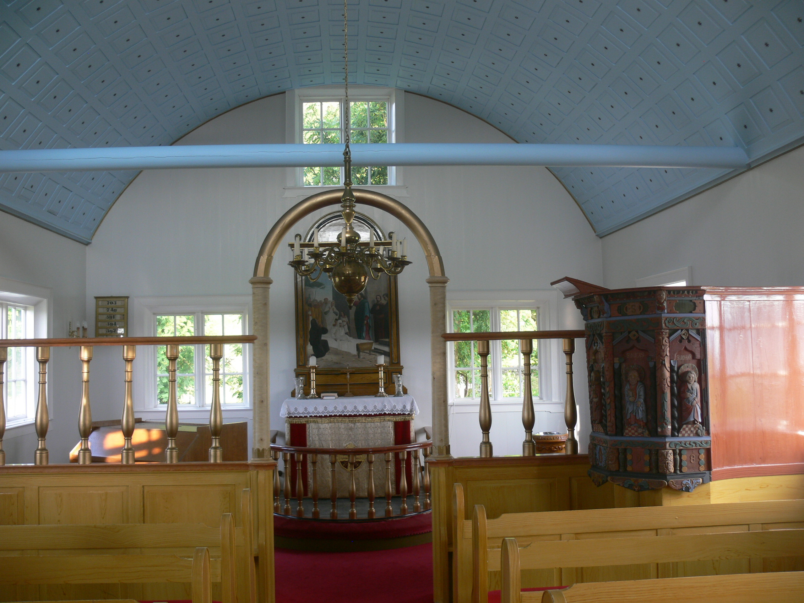 Laufas.Church ( 1865 ) - Interior.